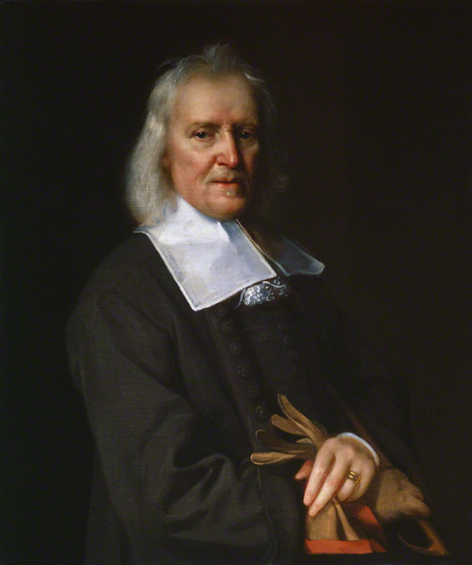 Izaak Walton portrait by Jacob Huysmans, c. 1672, National Portrait Gallery (London)